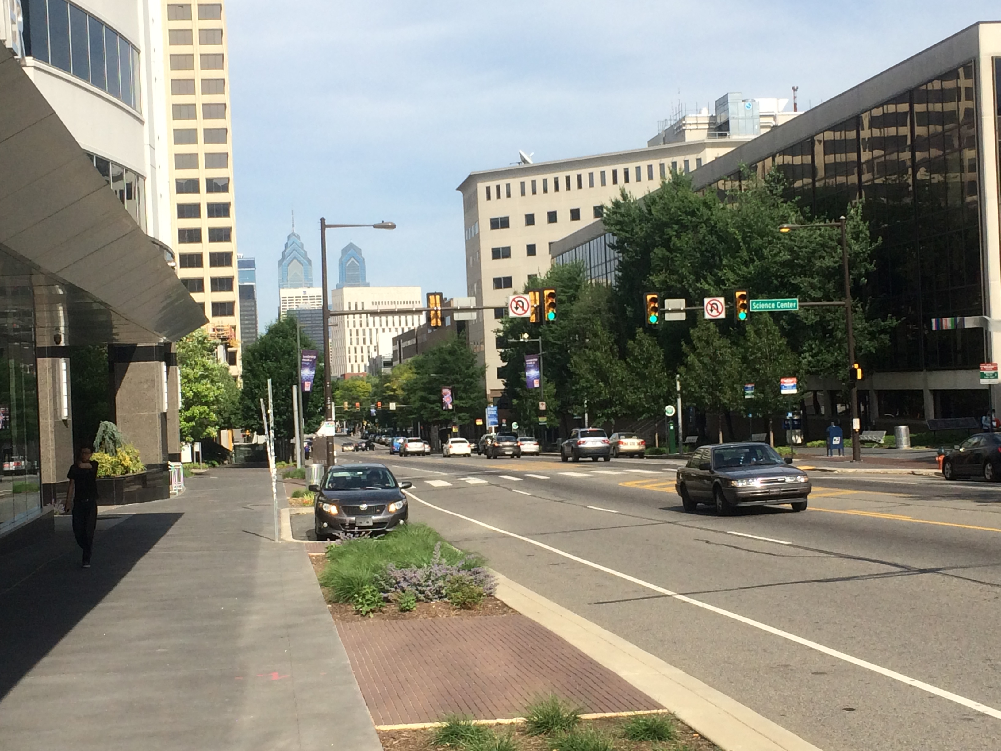 The Science Center from my iPhone 5s - my own work